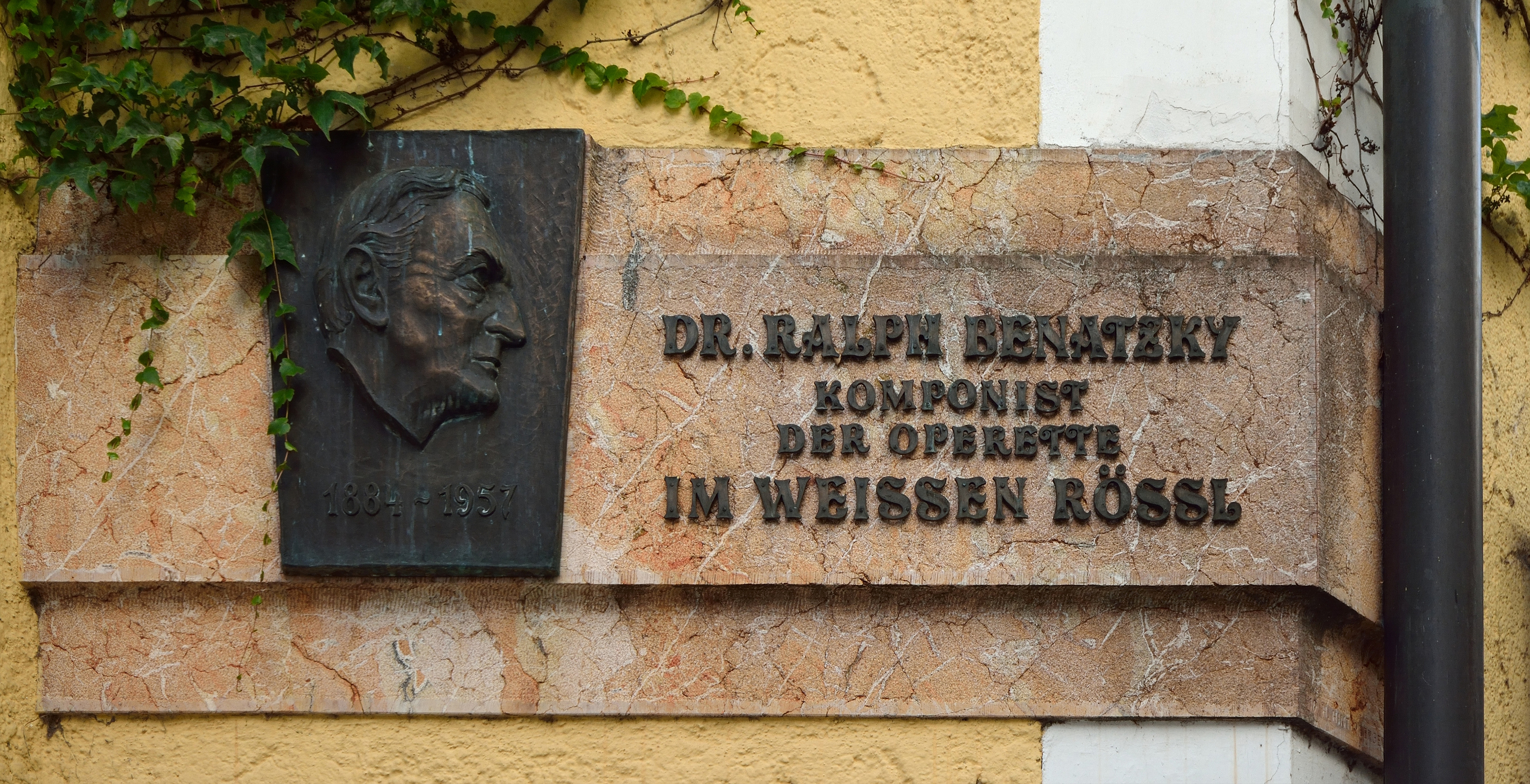 Plaque commemorating Ralph Benatzky, Hotel zum Weißen Rössl, St. Wolfgang, Upper Austria